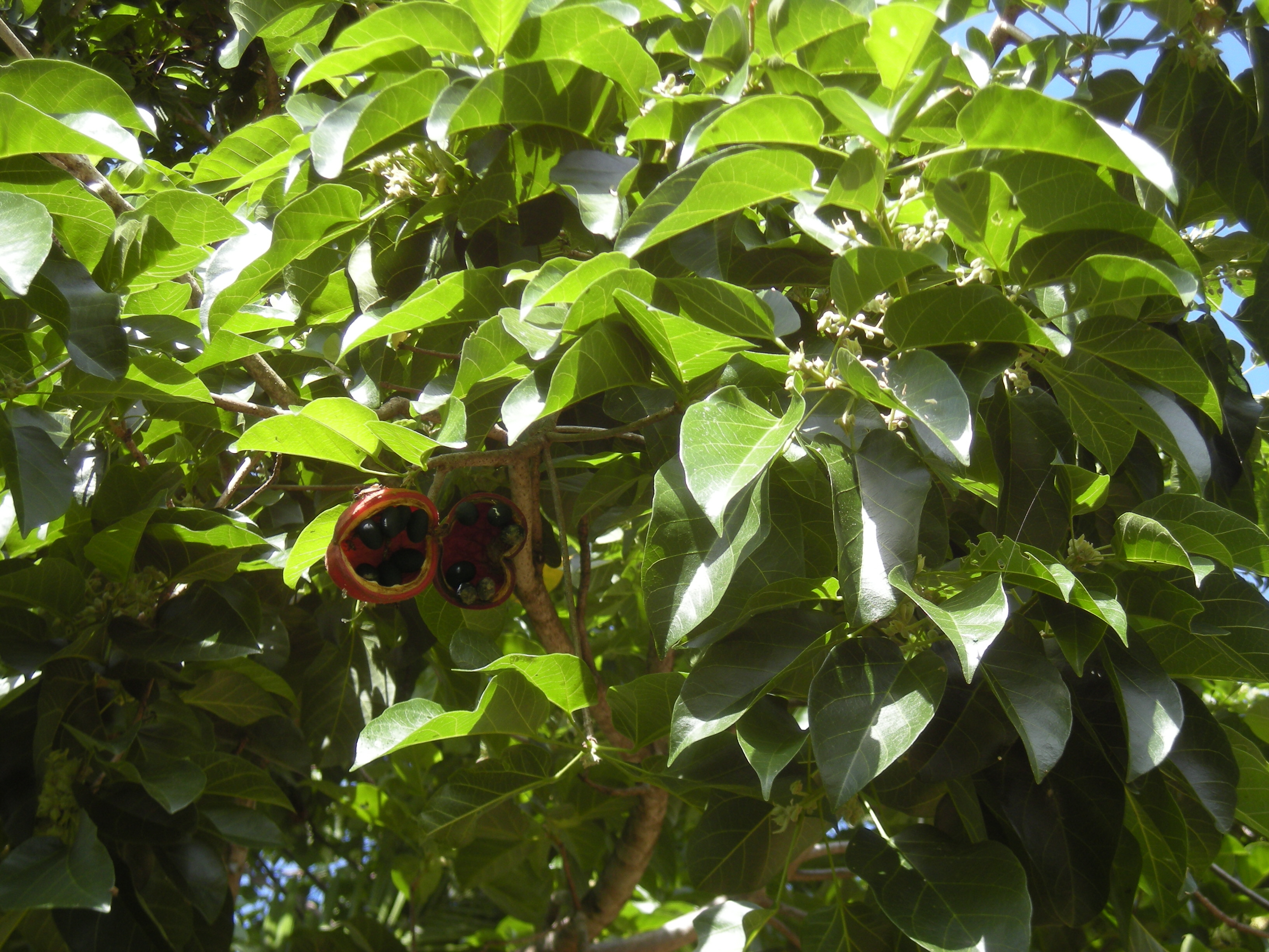 Sterculia quadrifida fruit and foliage. Mount Archer National Park, Rockhampton